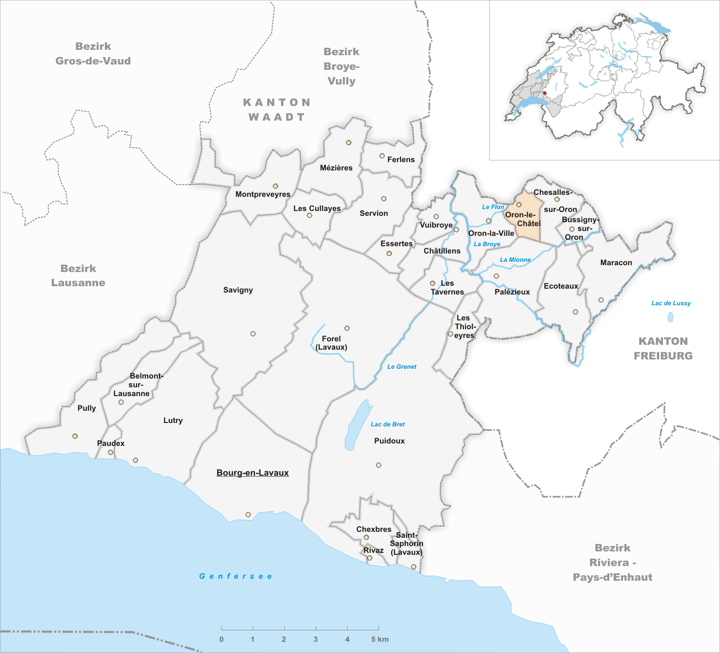 Municipality Oron-le-Châtel